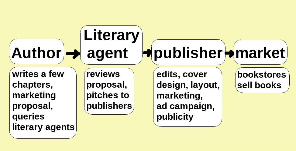 In previous decades, an author typically had to get published via agents and publishers who had to approve his or her project.